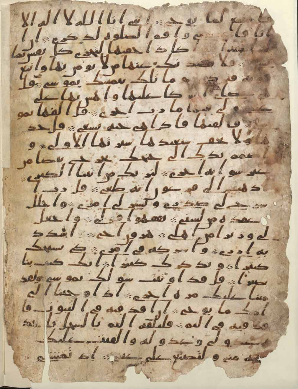 Part of the Birmingham Quran manuscript.